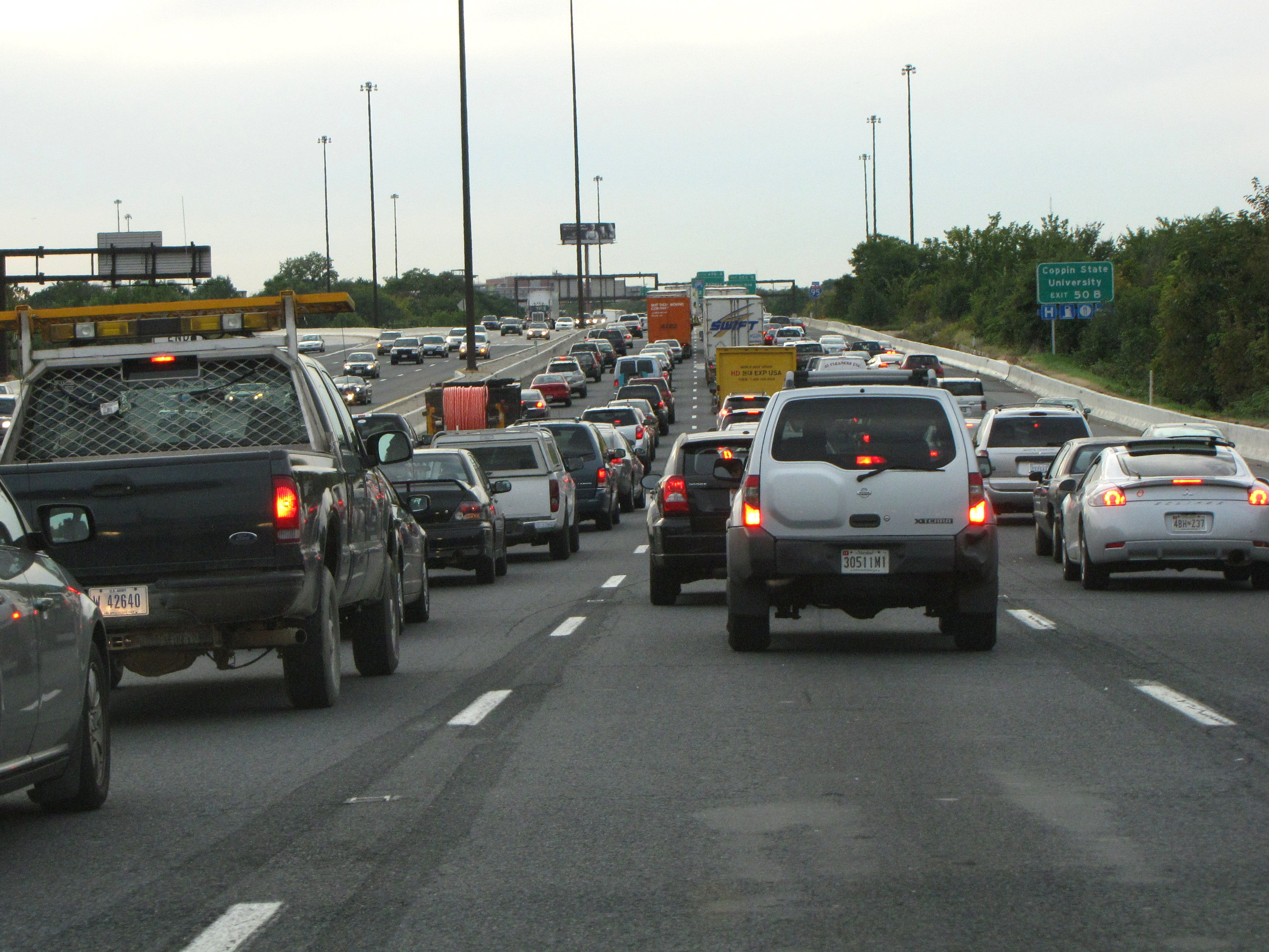 Traffic congestion on southbound Interstate 95 in Baltimore, Maryland, near milepost 50.